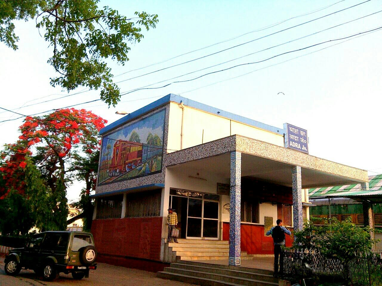 Adra Rail station in Spring time